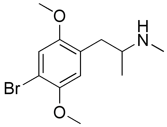 Chemical structure of Methyl-DOB, drawn in ChemDraw by User:Mark PEA.